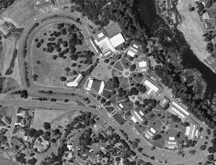 Campus of Umpqua Community College in Roseburg, Oregon